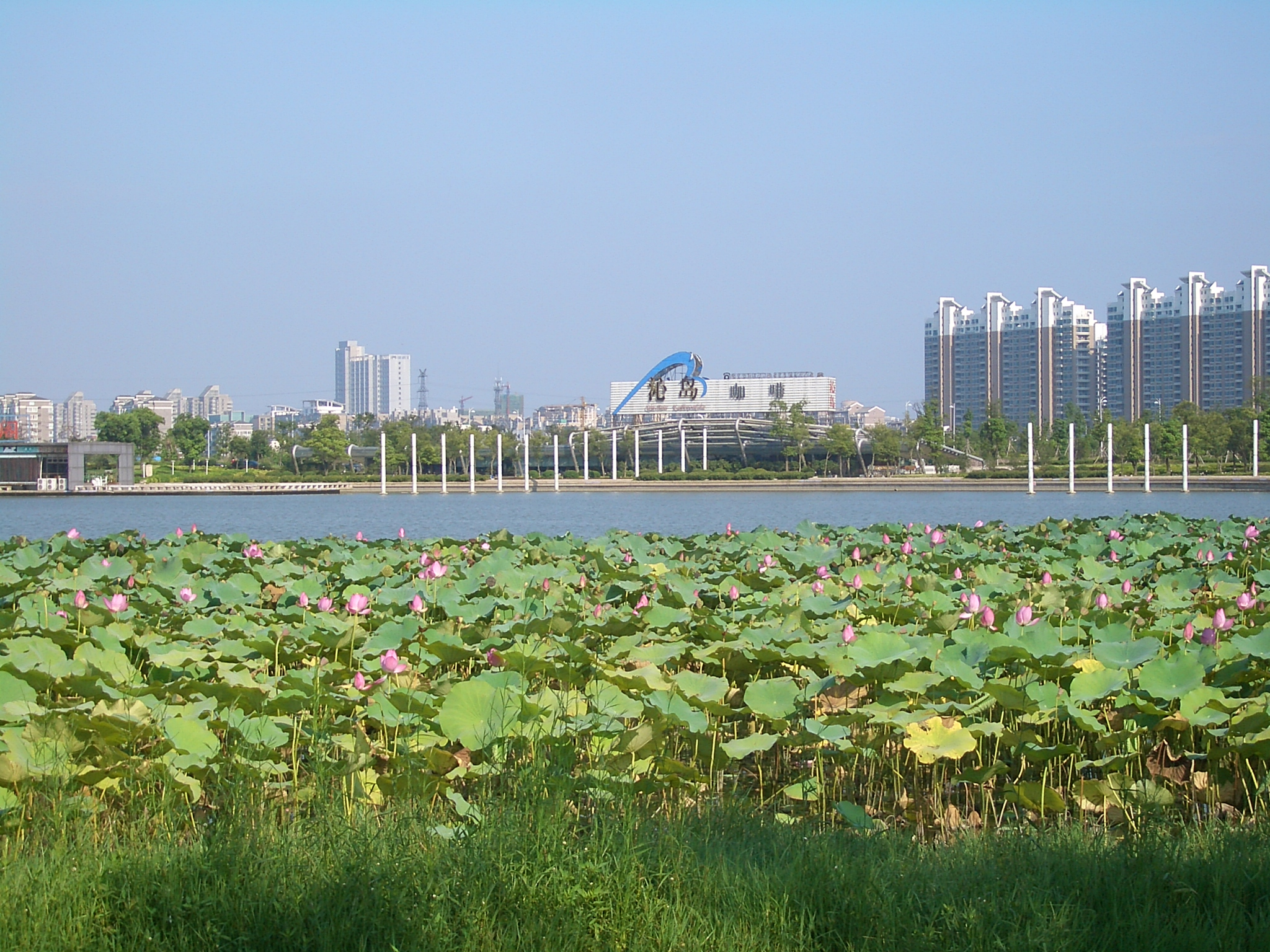 Lotus-covered Mingyue Lake, near Yangzhou Museum.